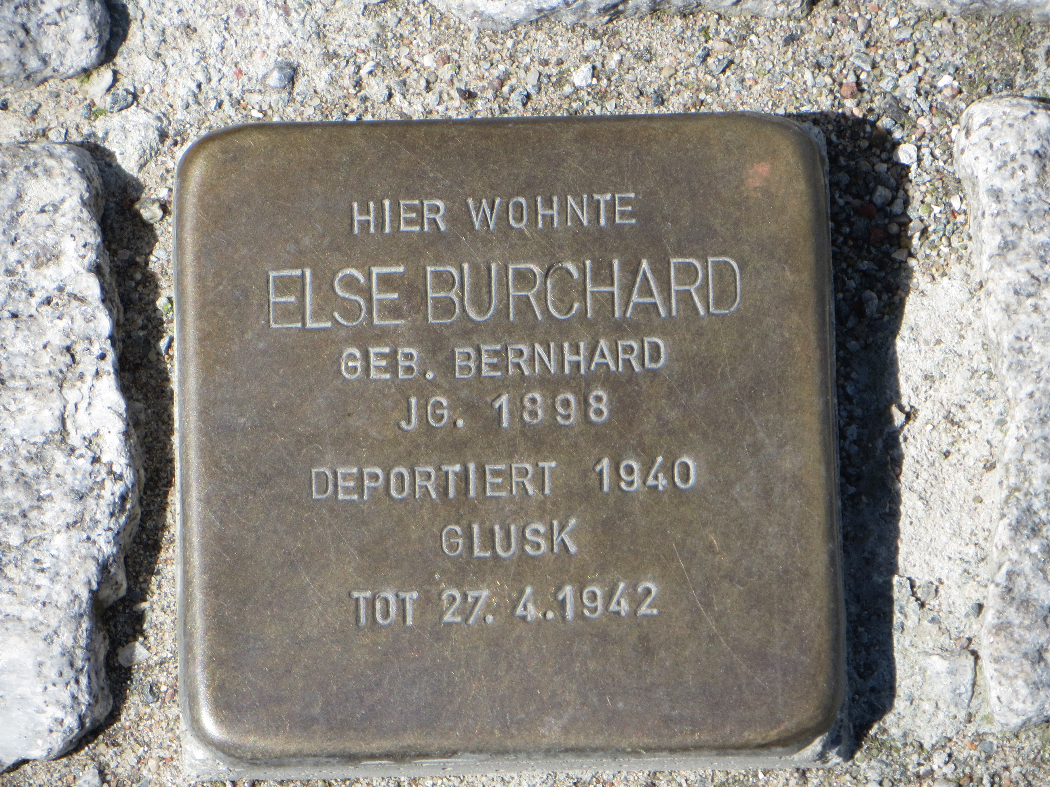 Kuhstrasse Stolperstein Else Burchard